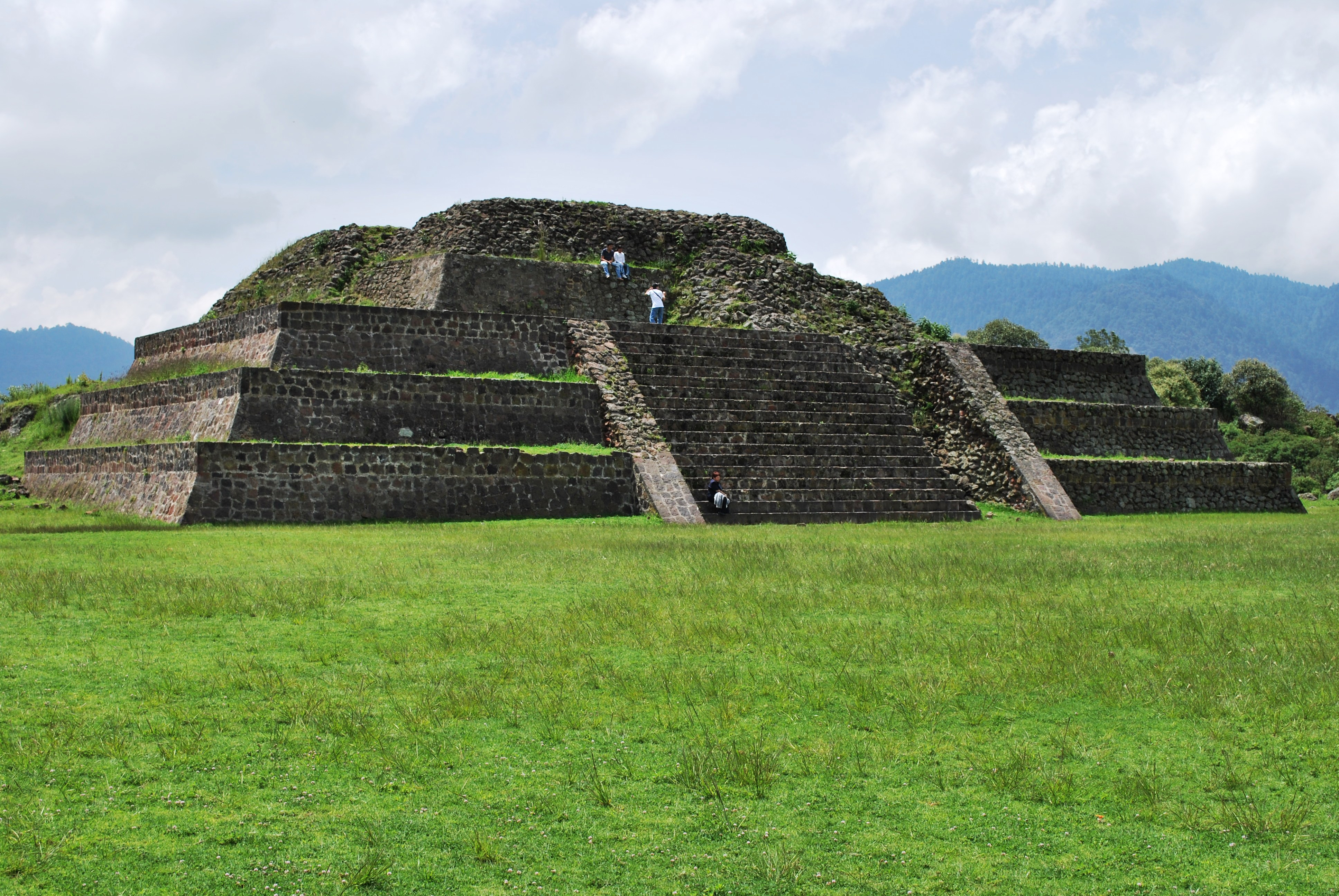 Building B1 or the pyramid in Conjunto B in Teotenango, Tenango del Valle, Mexico State